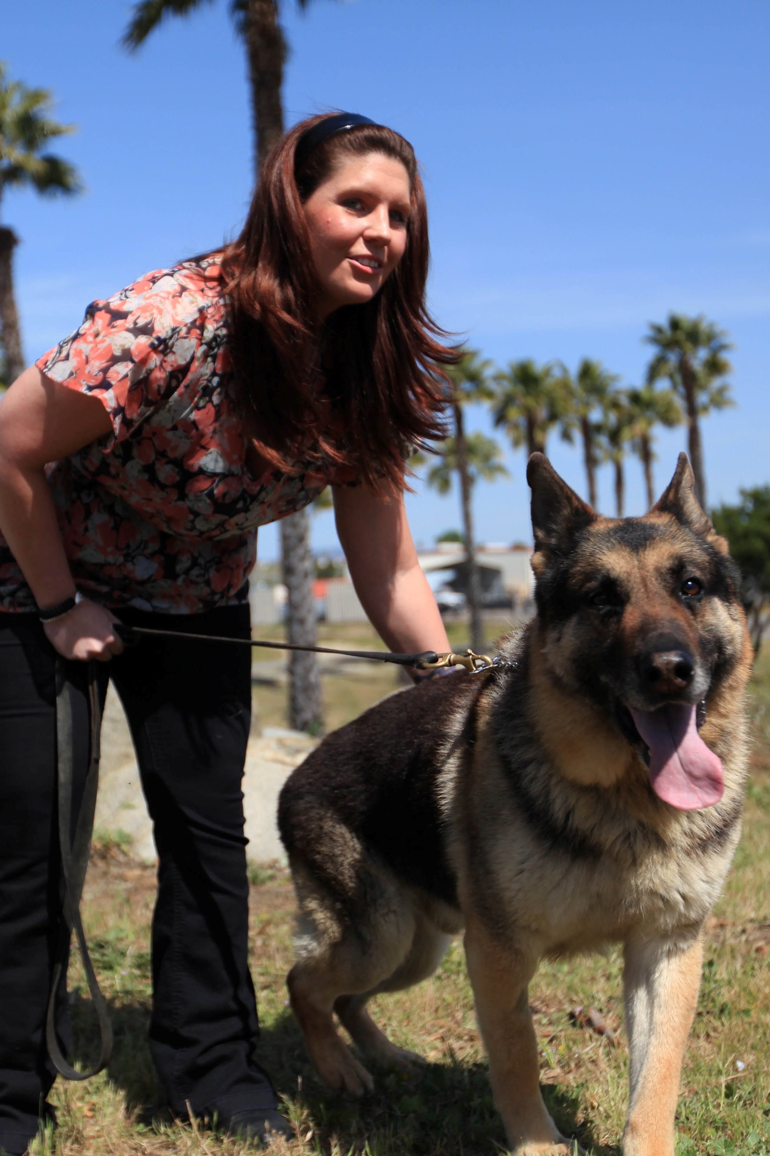 Former Cpl. Megan Leavey pets Military Working Dog Rex during his retirement ceremony and adoption at Camp Pendleton's K-9 unit, April 6. Leavey, who was previously Rex's handler, had written a letter to Congress requesting to adopt Rex since he was being forced to retire due to facial paralysis. Rex served in three combat deployments and provided over 11,575 hours of military working dog support consisting of over 6,220 vehicle inspections during random anti-terrorism searches. Rex was constantly put in harm's way during multiple firefights, mortar attacks and improvised explosive devices during Operation Iraqi Freedom.